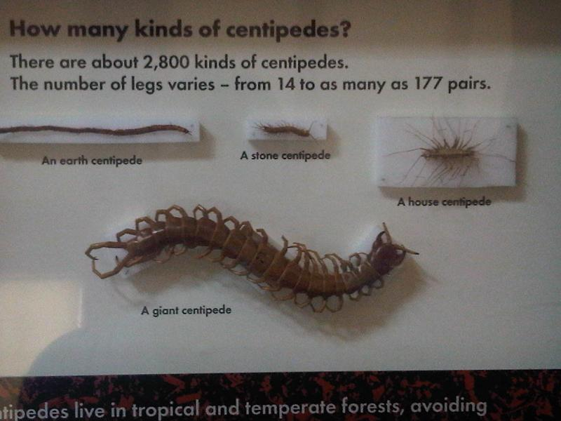 Up, from left to right: Earth centipede (Pachymerium ferrugineum), Stone centipede (Lithobius forficatus), House centipede (Scutigera coleoptrata) and down Peruvian giant orange leg centipede (Scolopendra gigantea) at the Natural History Museum in London, England.